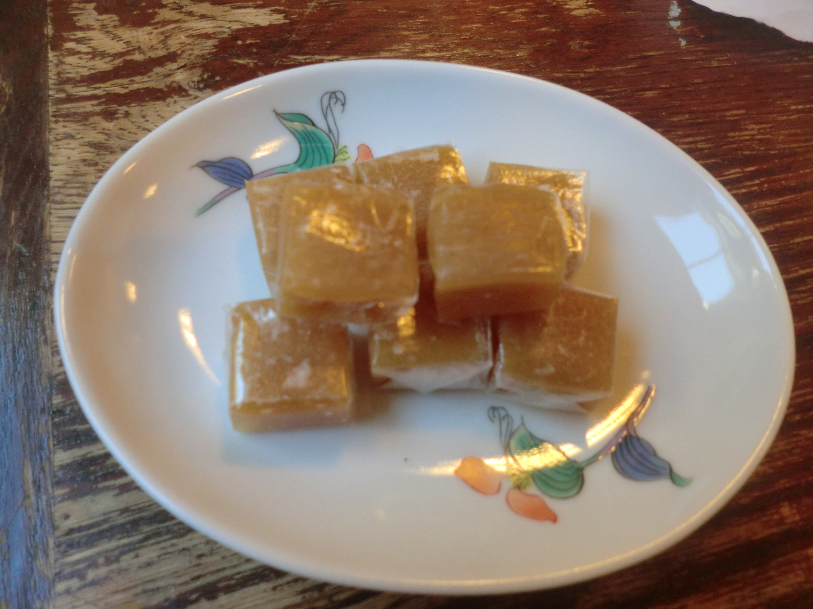 "Satsuma-imo caramel"(sweet potato caramel) famous in Kyushu area, Japan.